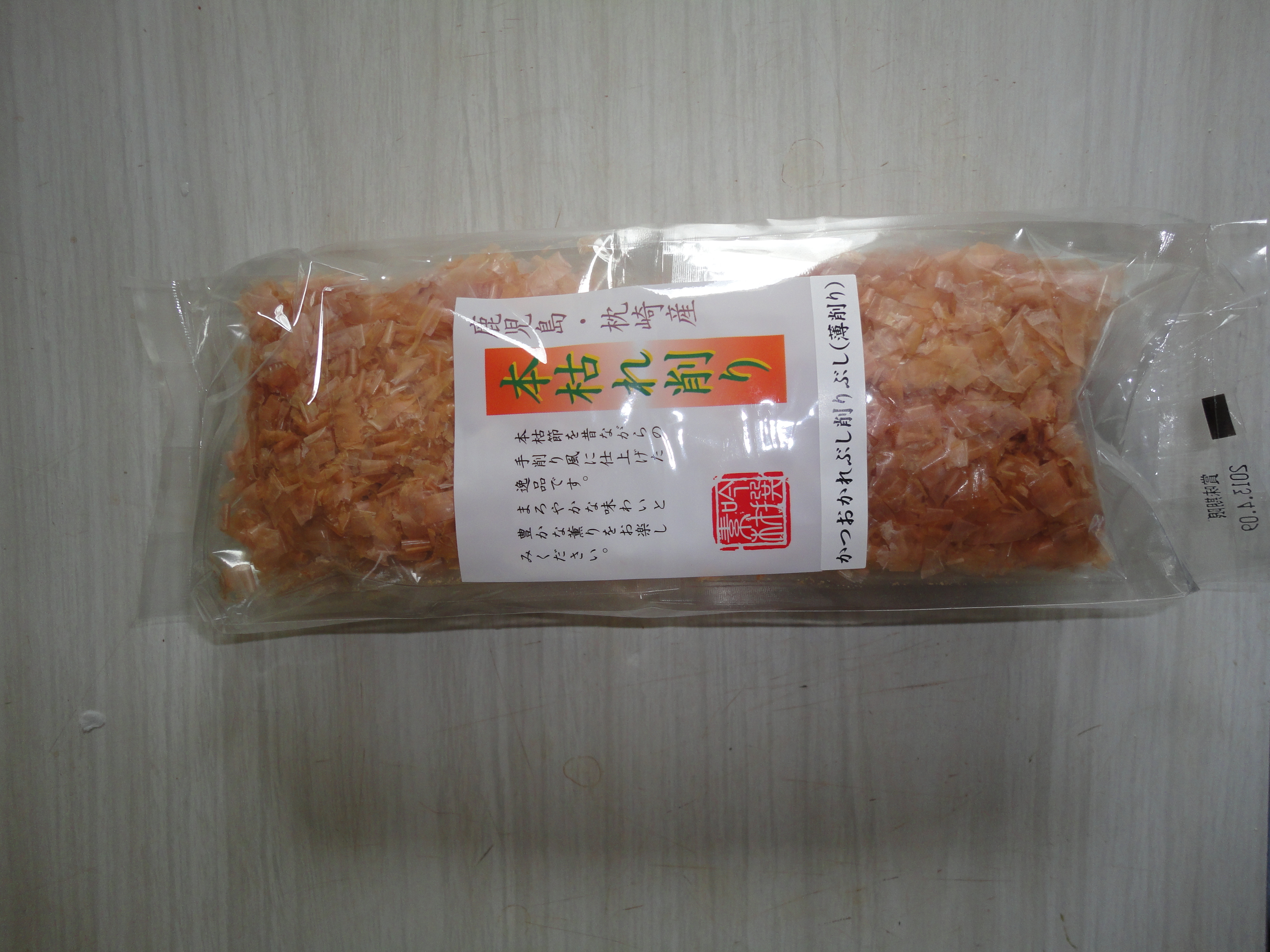 a parcel of hanakatsuo